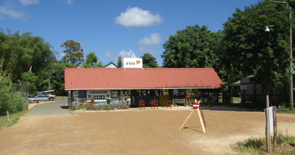 Paramaribo Zoo, Paramaribo, Surinam. Entrance.